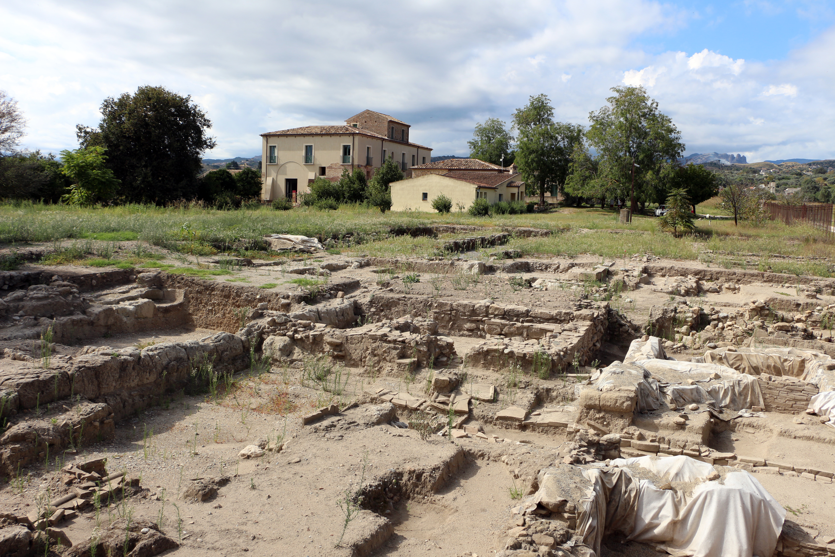 Lokroi Epizephyrioi